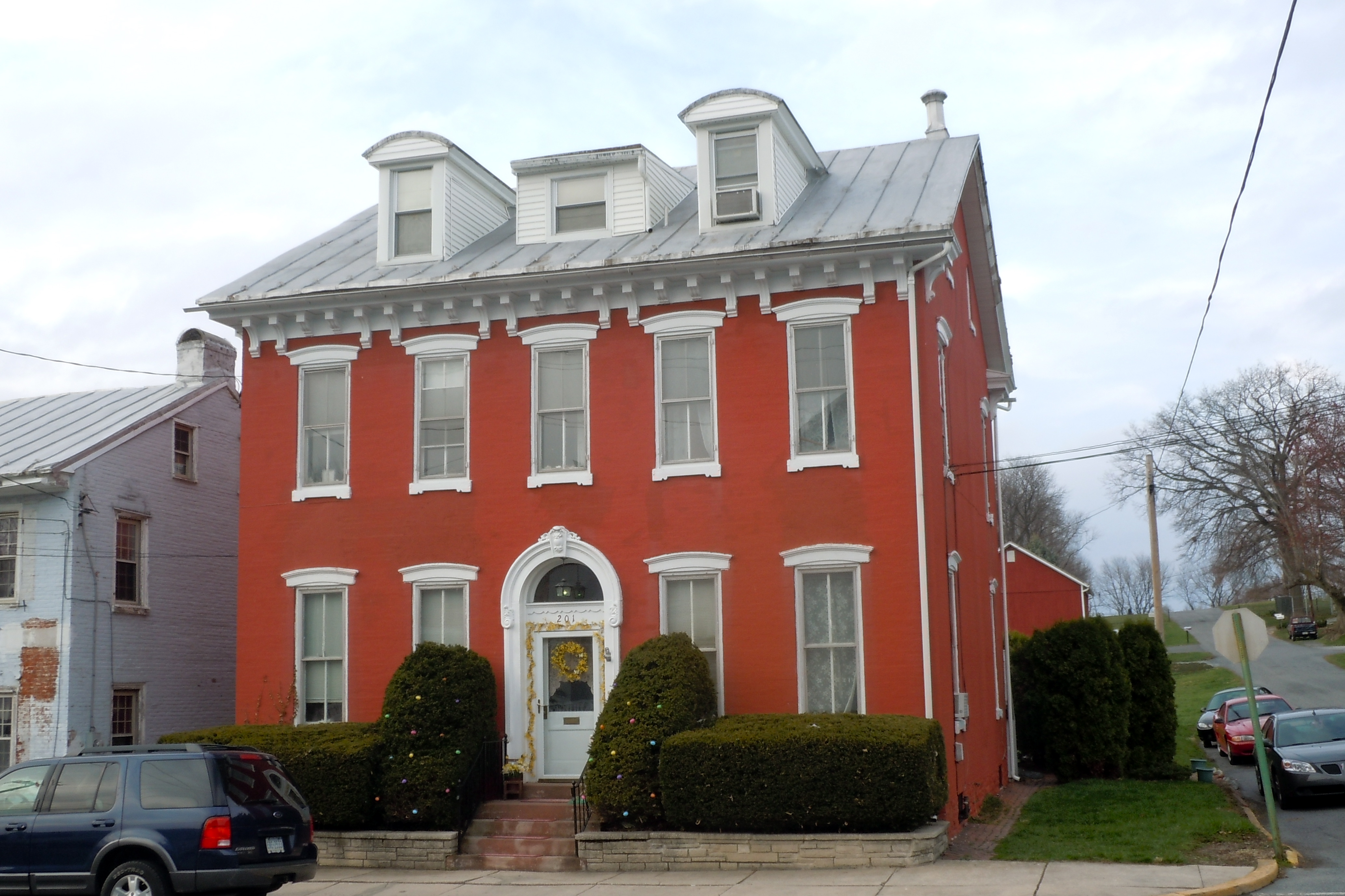 House in Womelsdorf Historic District on the NRHP since March 10, 1982. The HD is roughly bounded by Water, 4th, Franklin and Jefferson Streets, in Womelsdorf, Berks County, Pennsylvania. This house is on Franklin Street (NW corner of Franklin and Second St)The Gray Home next door was the home of John Womelsdorf